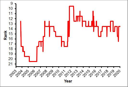 IRB World Rankings from